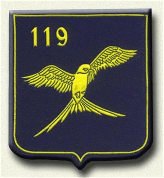 Template:PD-SerbiaGov